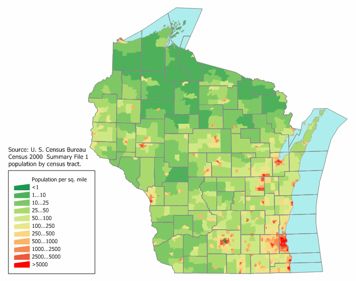 Wisconsin population density map based on Census 2000 data. See the data lineage for a process description.